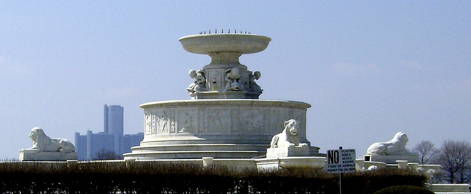 The James Scott Memorial Fountain in Belle Isle Park, Detroit, Michigan, United States.